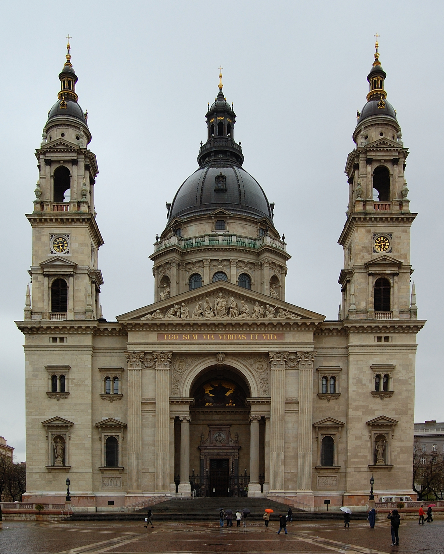 Saint Stephen's Basilica in Budapest.